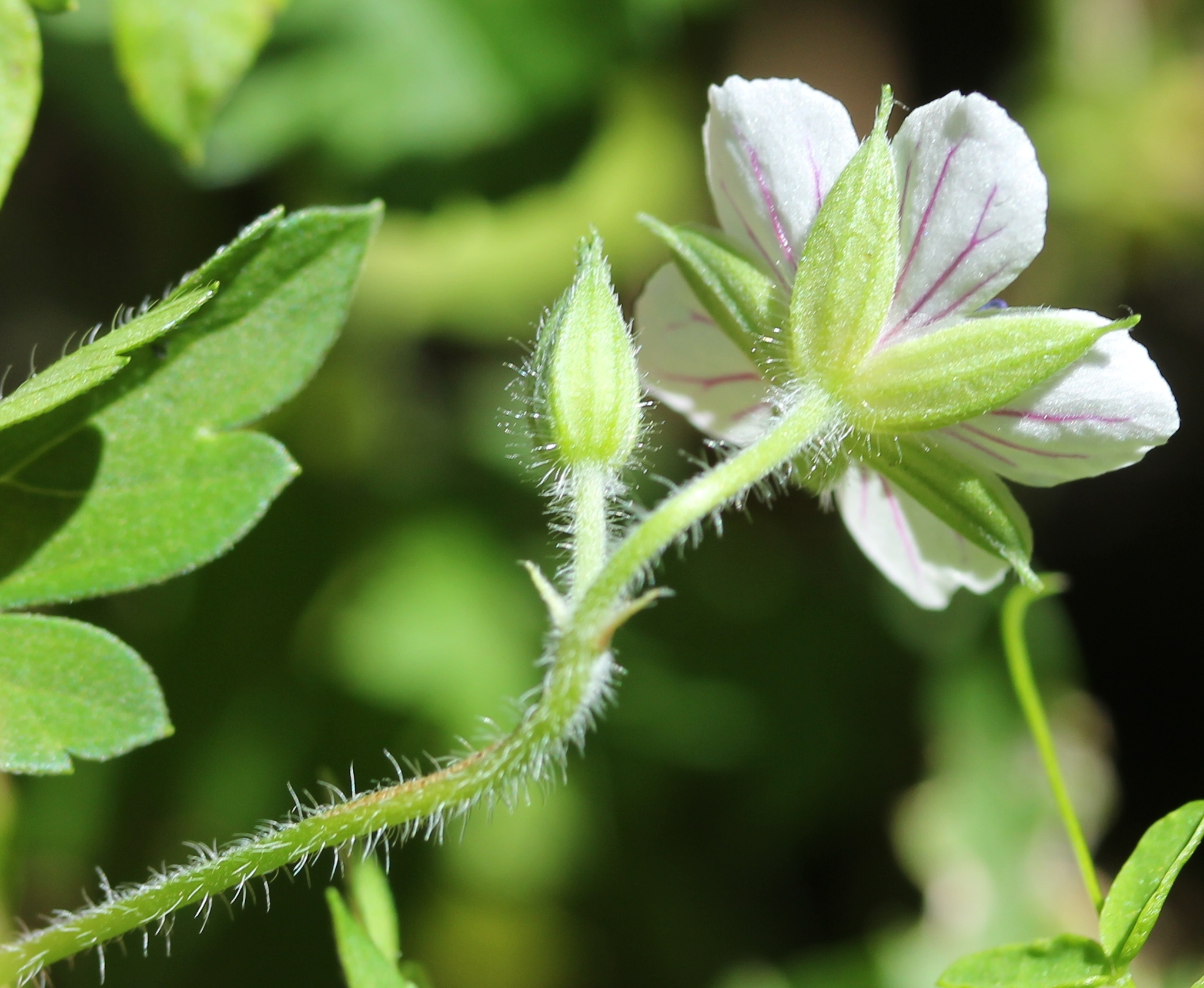 Geranium thunbergii, in Mount Ibuki, Ibigawa, Gifu prefecture, Japan.